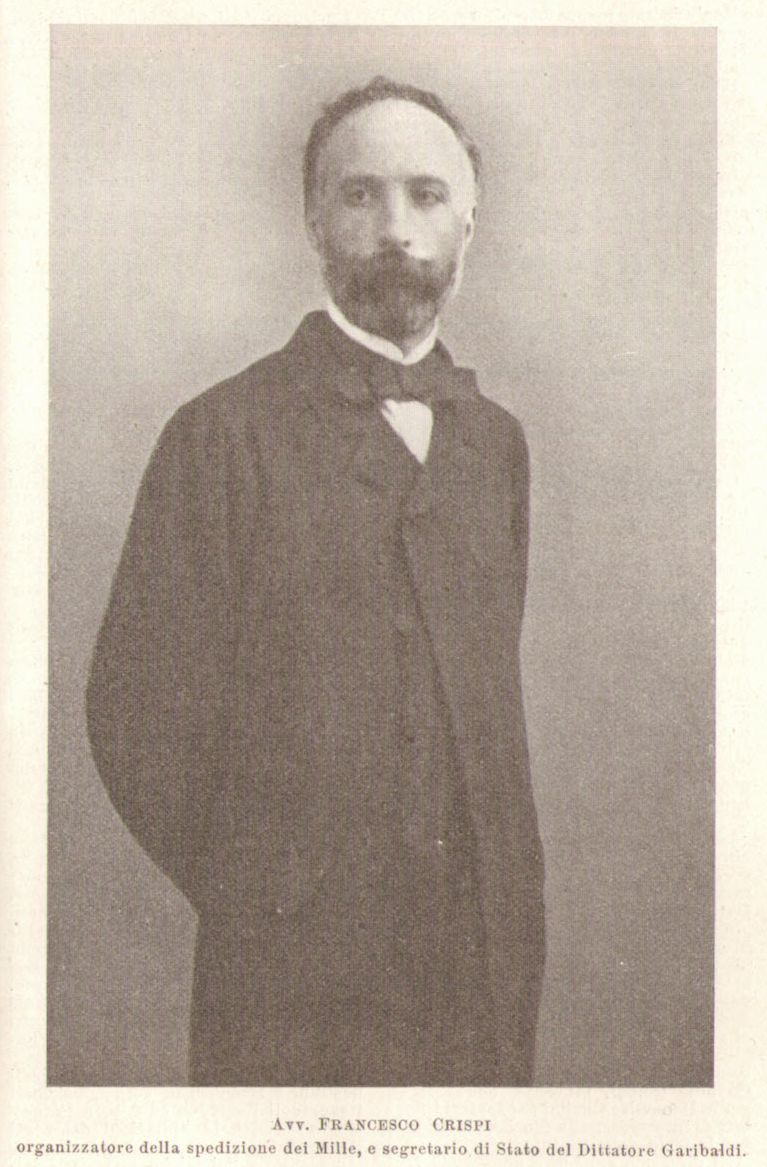 Francesco Crispi (1818-1901) Secretary of State in Sicily in 1860